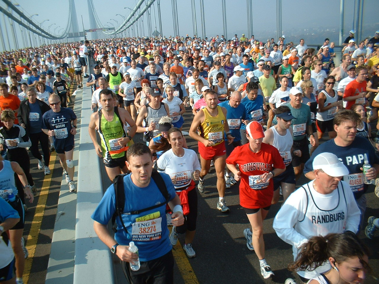 Marathon de New-York : Verrazano Bridge